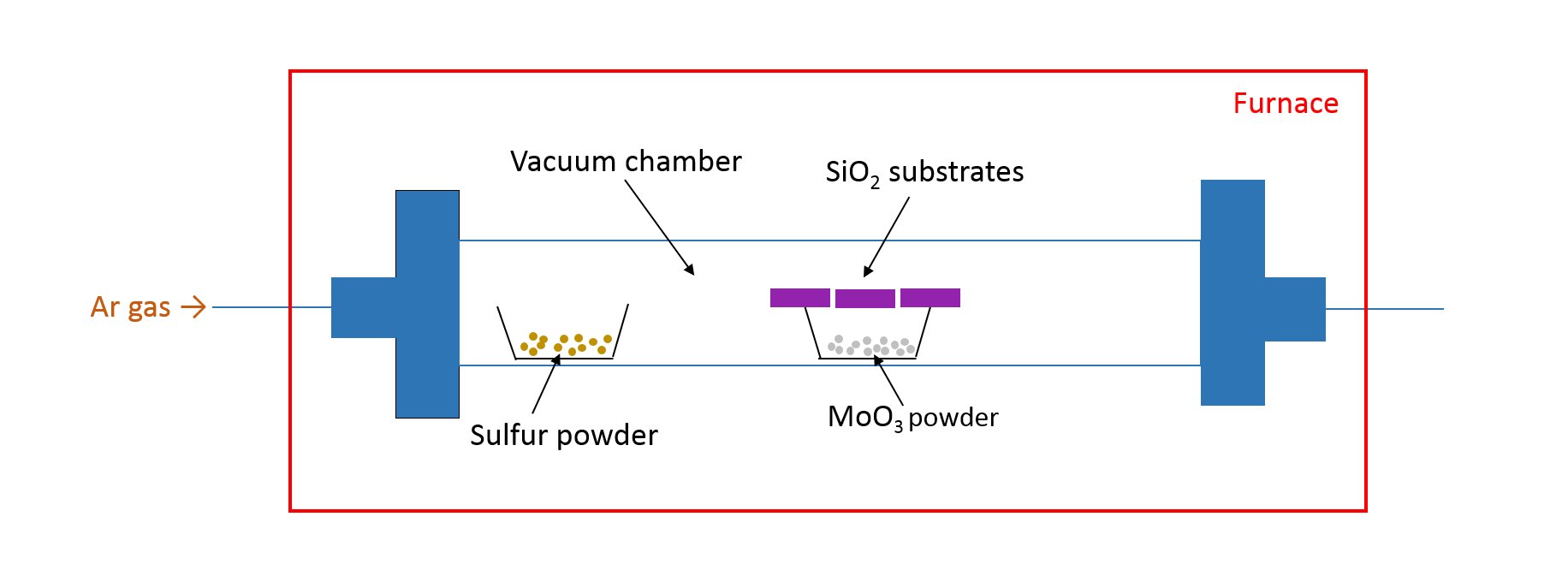 CVD setup for MoS2 synthesis